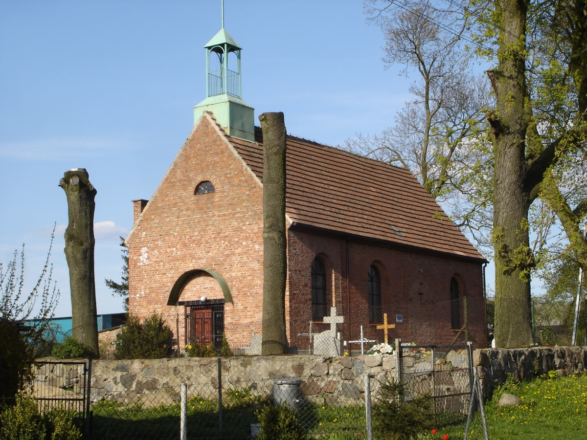 Saint Anne church in Grabowo, Poland